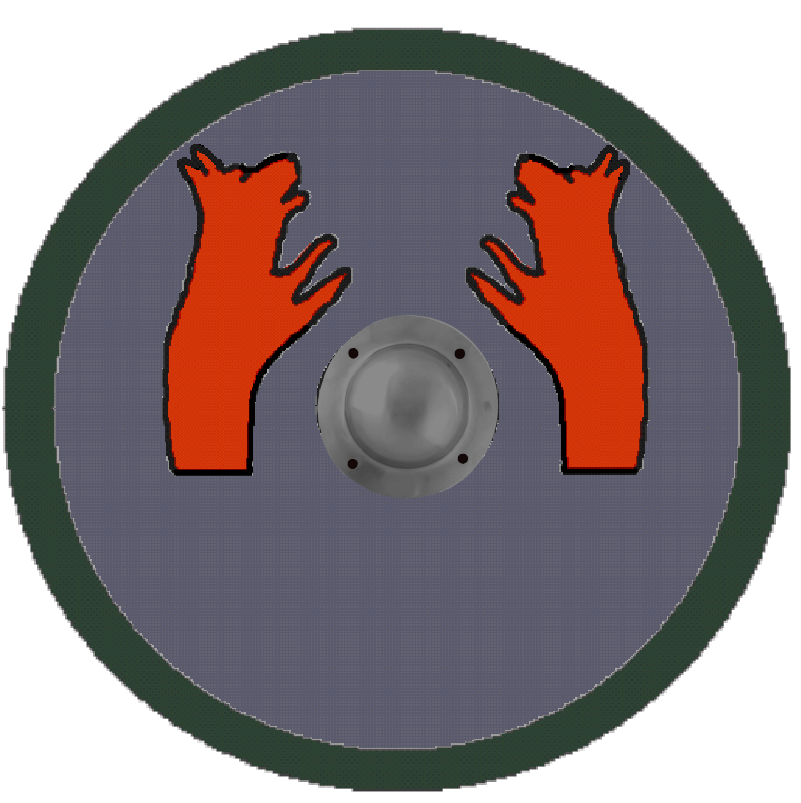 Shield pattern o.t. Grati, an auxilia palatina units listed in the in the western portion of the Notitia in the Magister Peditum's infantry roster; it is assigned to his Italian command.